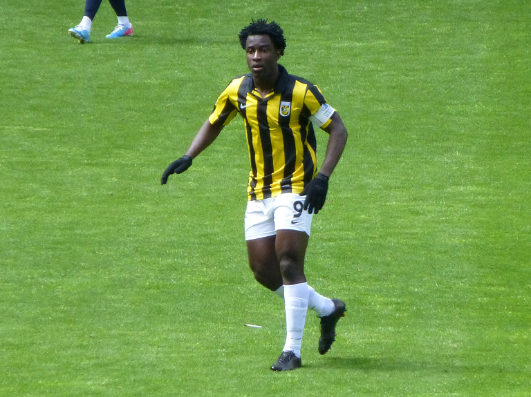 Vitesse's Wilfried Bony captain during the Eredivisie Match Vitesse - VVV-Venlo on May 12, 2013